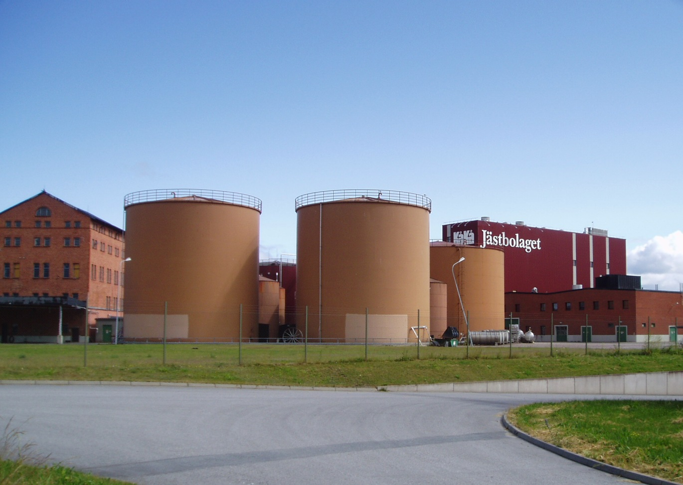 Yeast factory at Rotebro, Sweden